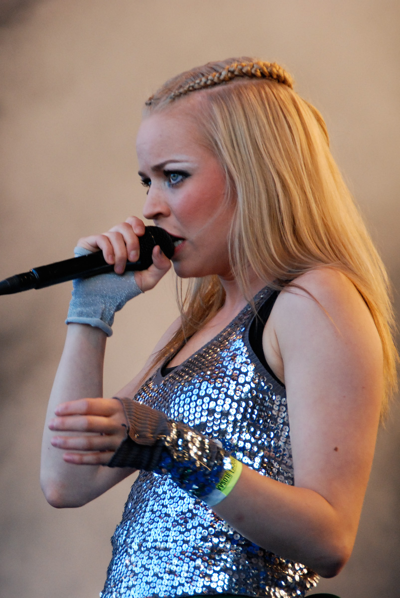 Paula Vesala of PMMP performing at the Ilosaarirock 2007 festival.